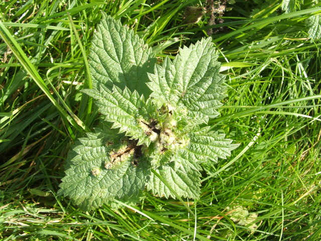 Leaf galls on nettle. These galls are caused by the mite Dasineura urticae; see: 973028. As the article there notes, these galls can be pale green to purple. The present photo has been added because it shows a pale green form (while the other photo shows a purple one), and because the present photo also better demonstrates the slit-shaped openings that are mentioned there; presumably, this is because these galls are more mature specimens.